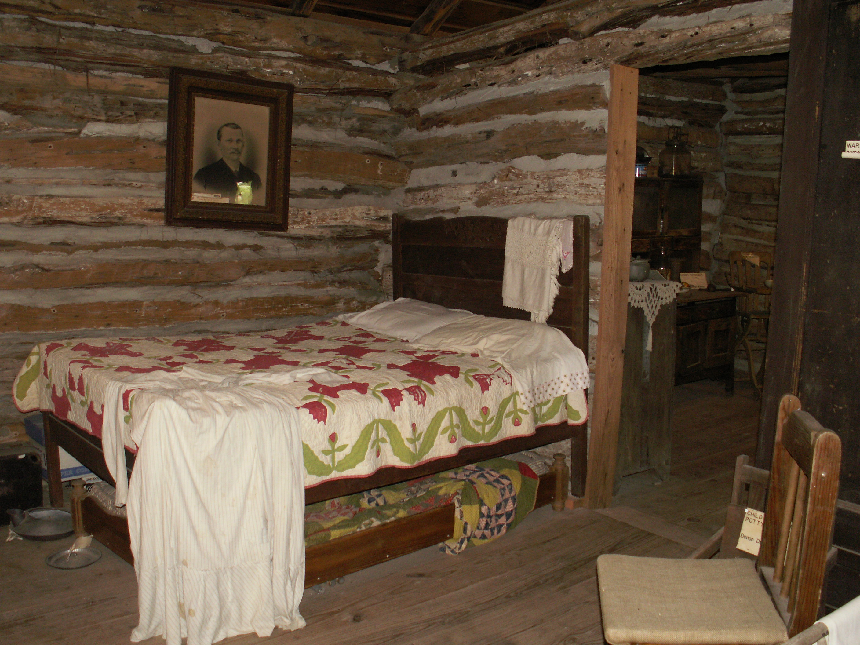 I own this image. I took the photo at Ft. Croghan on April 21, 2007. Emuchick Emuchick 15:05, 12 June 2007 (UTC)